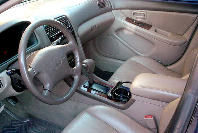 ES 300